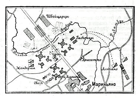 Battle of Marignan